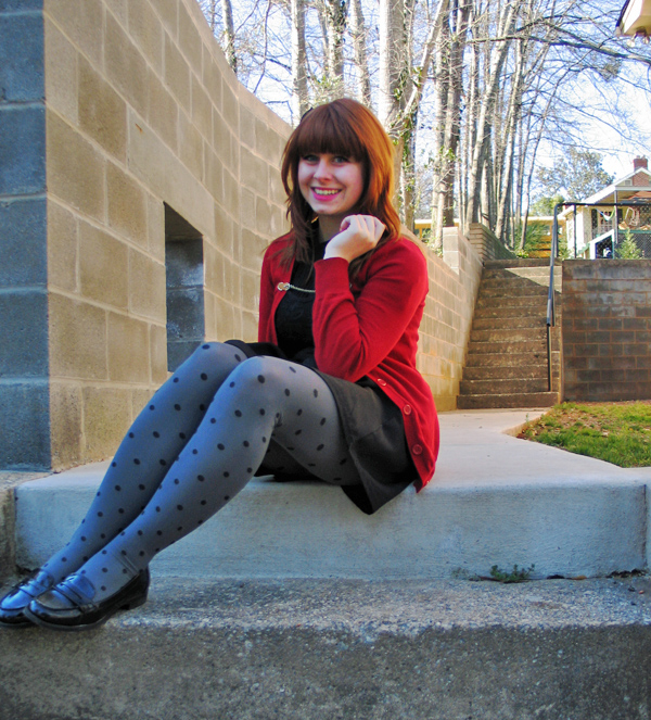 Red jacket and dotted opaque tights are the most noticeable items of clothing in the image.